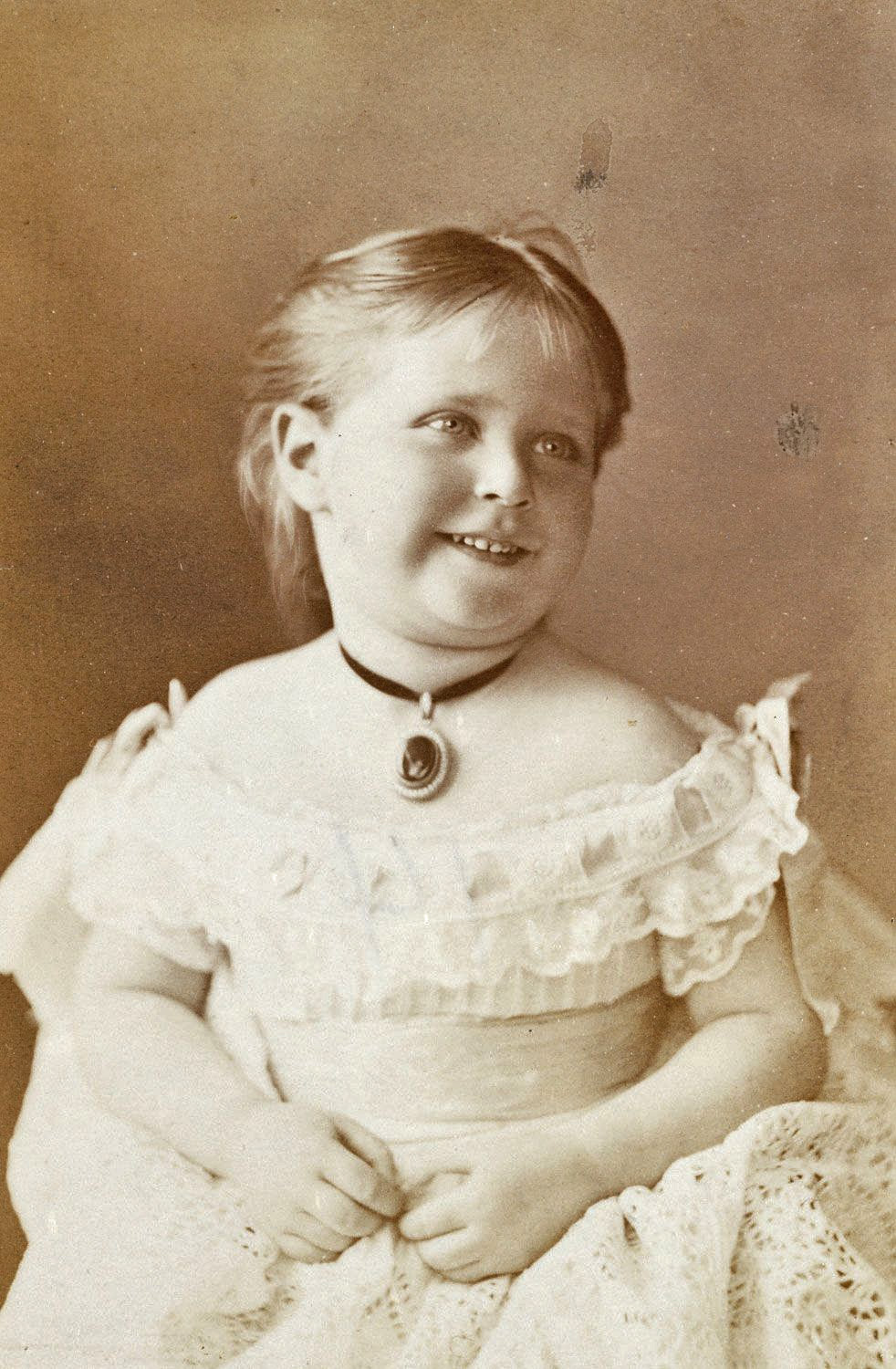 Princess Alix of Hesse as a young girl.